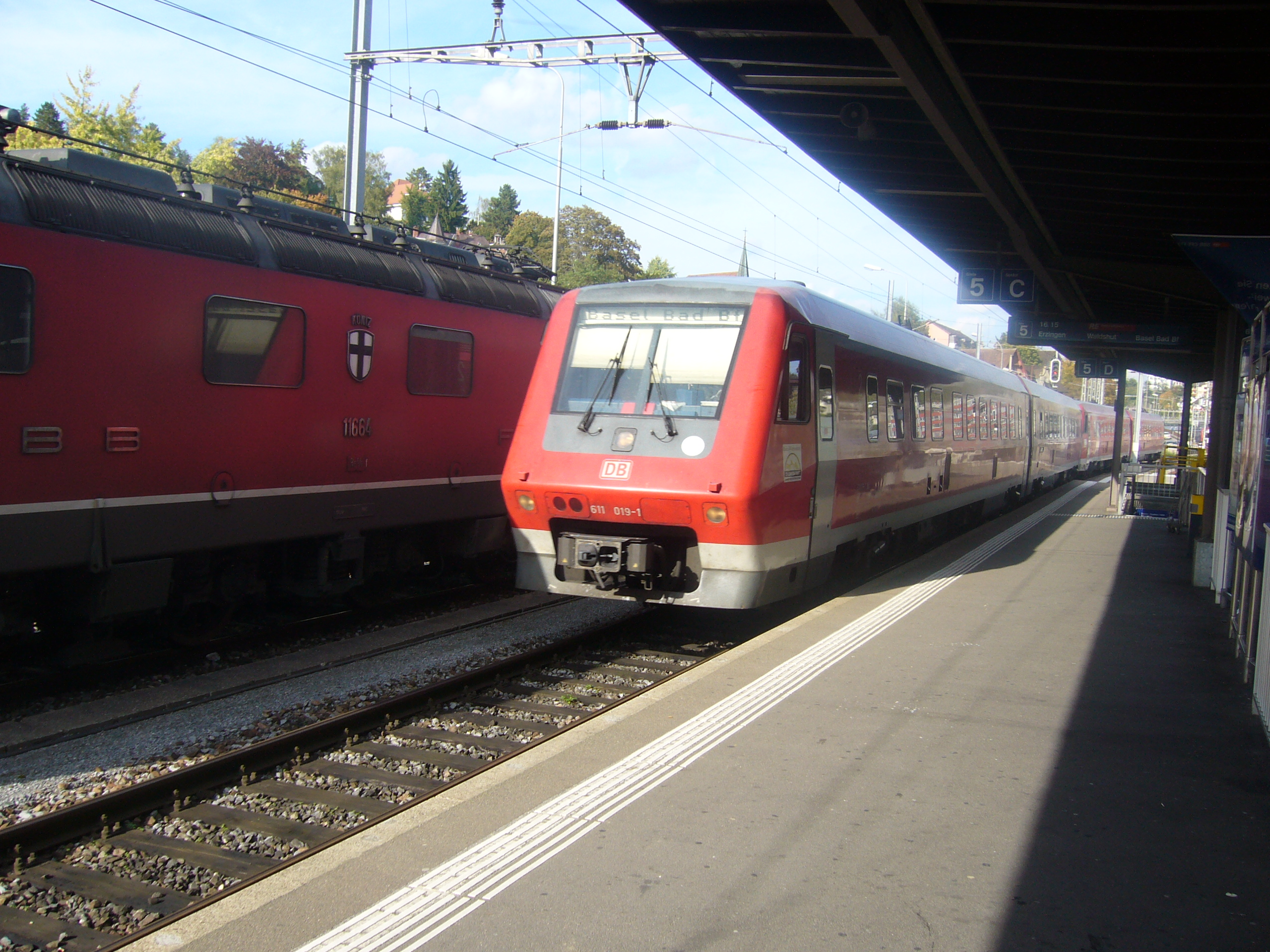 German regional express train in Schaffhausen, Switzerland